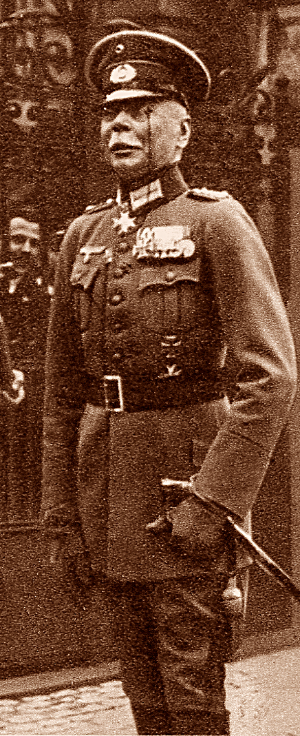 Hans von Seeckt († 1936) with both classes of the Iron Cross